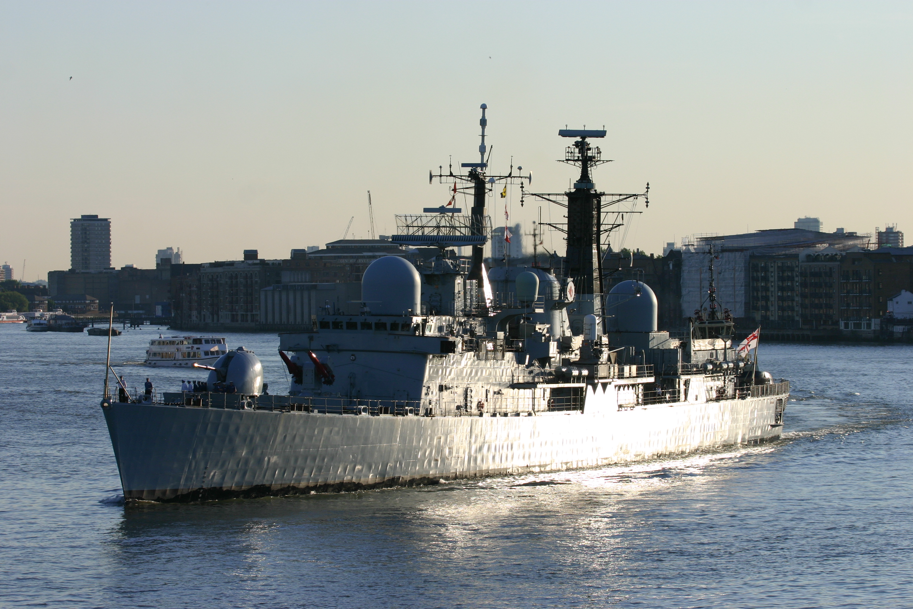 HMS Exeter sailing down the Thames past Limehouse Marina.